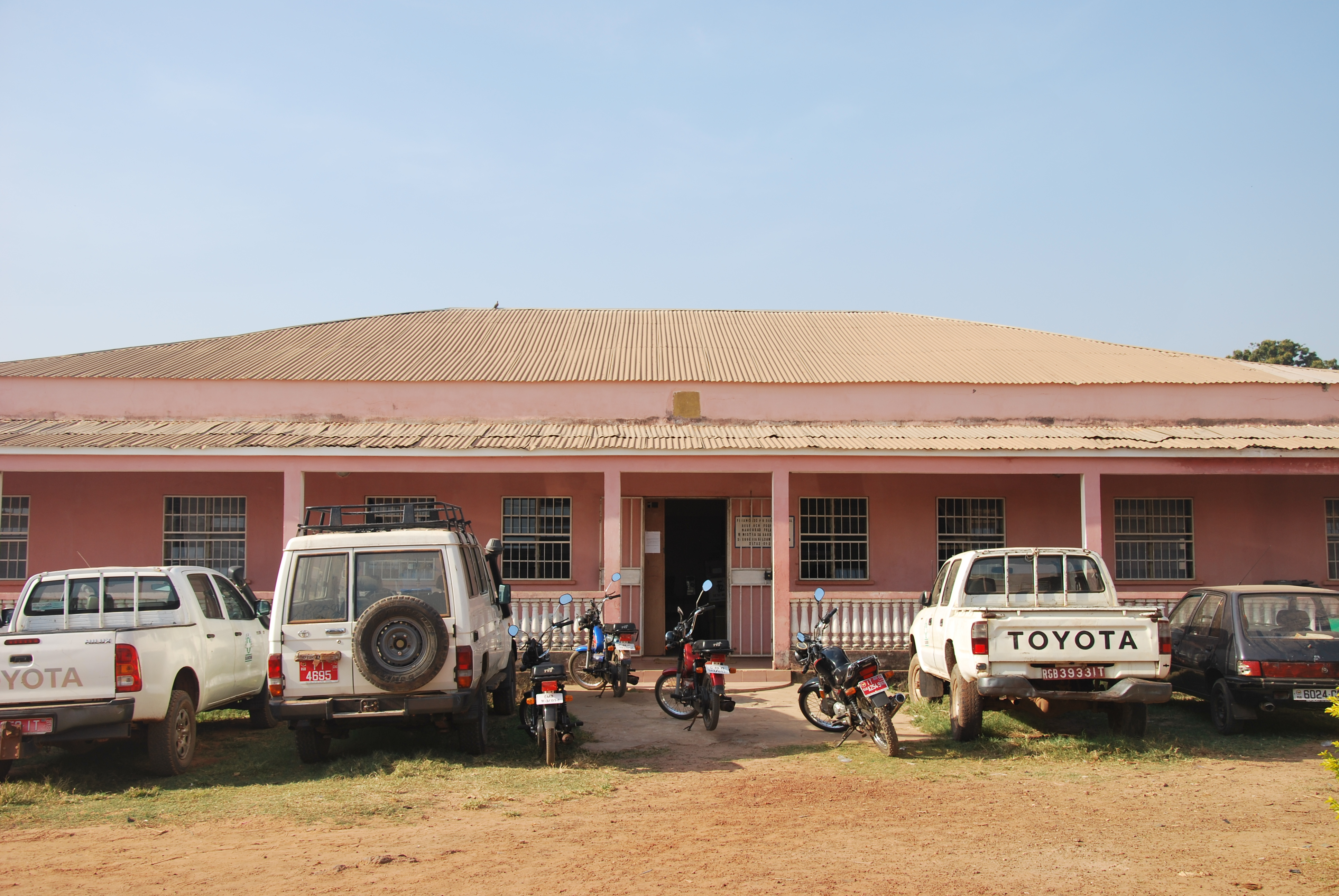 Bandim Health Project office Building in Guinea-Bissau